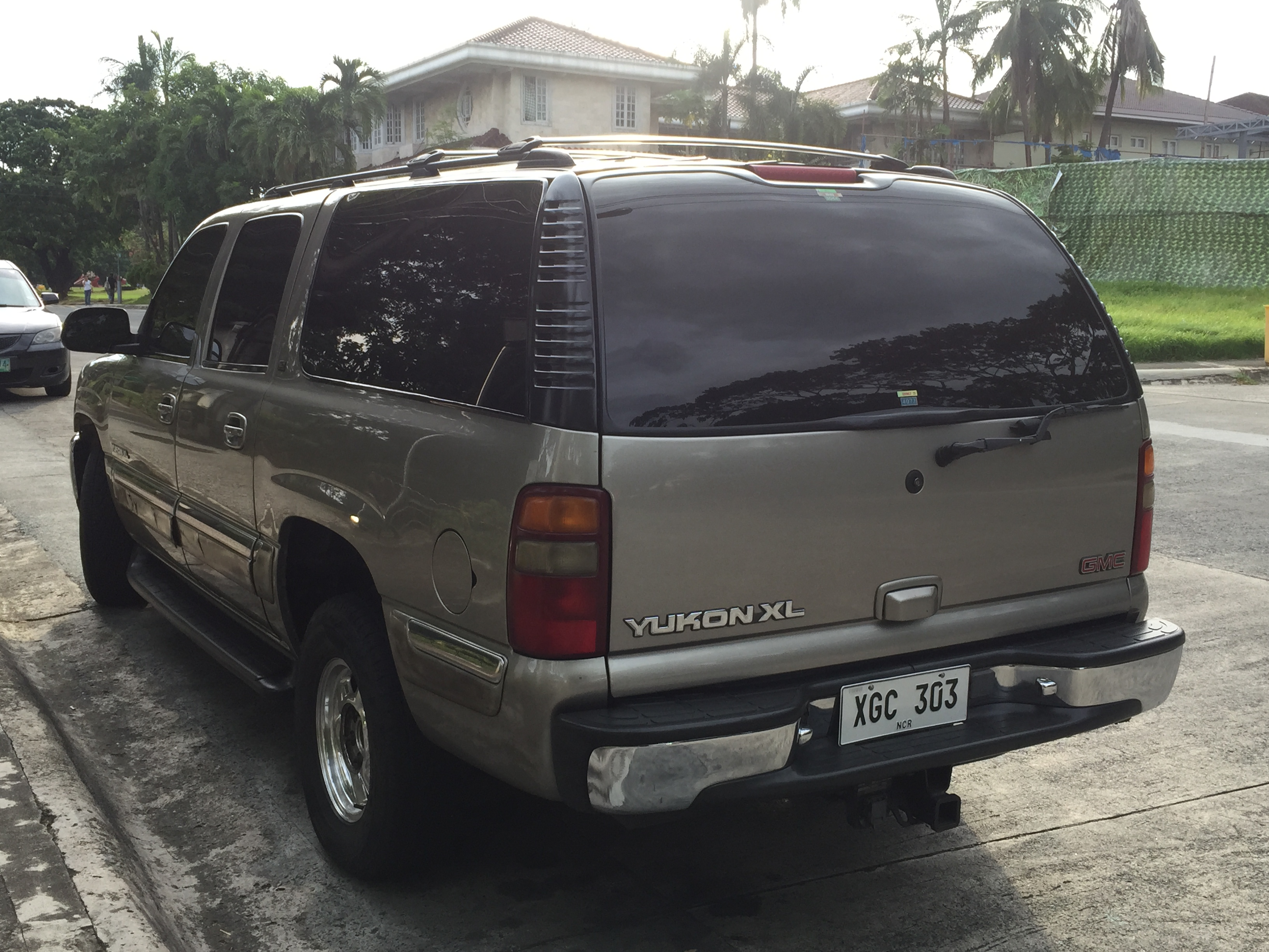 The rear side of a GMC Yukon XL. Note the white Philippine license plate. This vehicle is not officially sold in the country since GMC does not have a presence there.